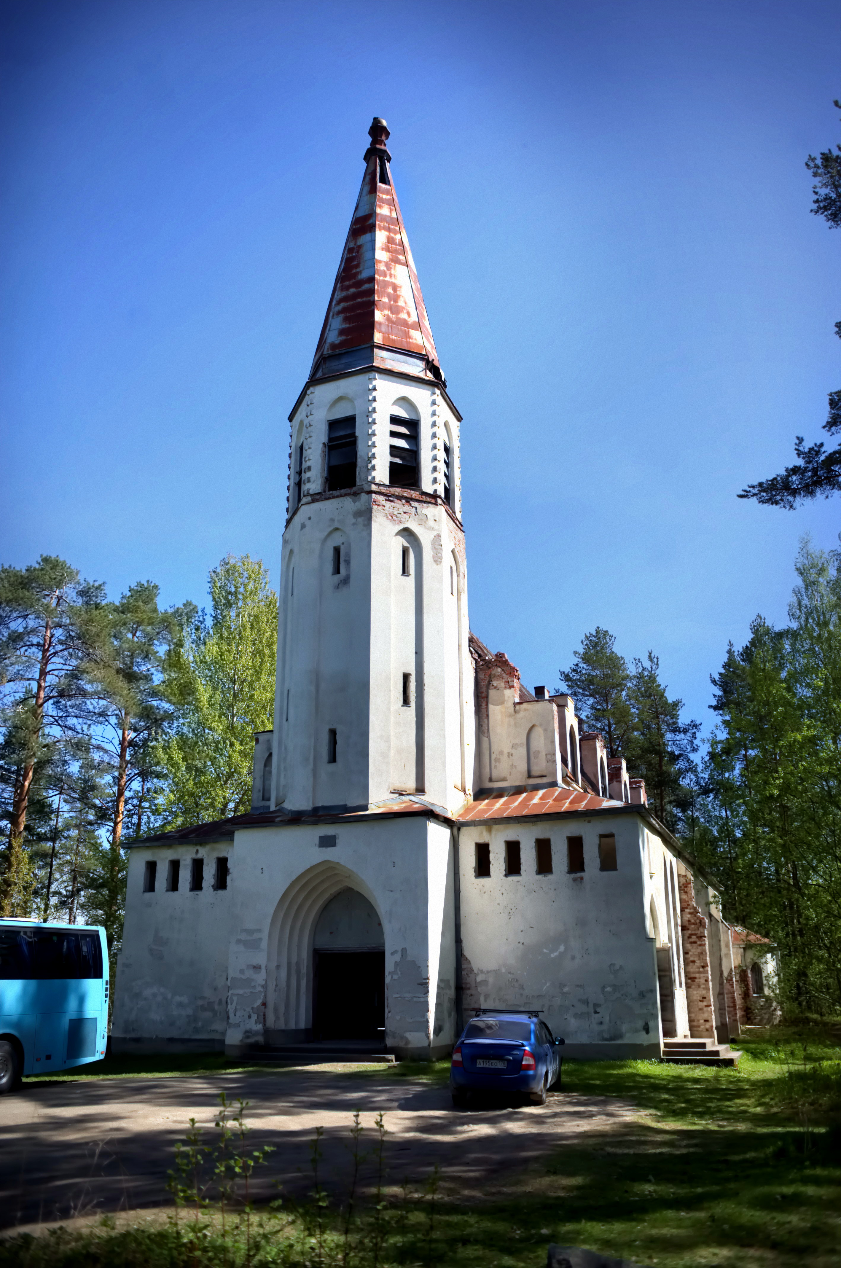 Lumivaara Church May 14th 2016